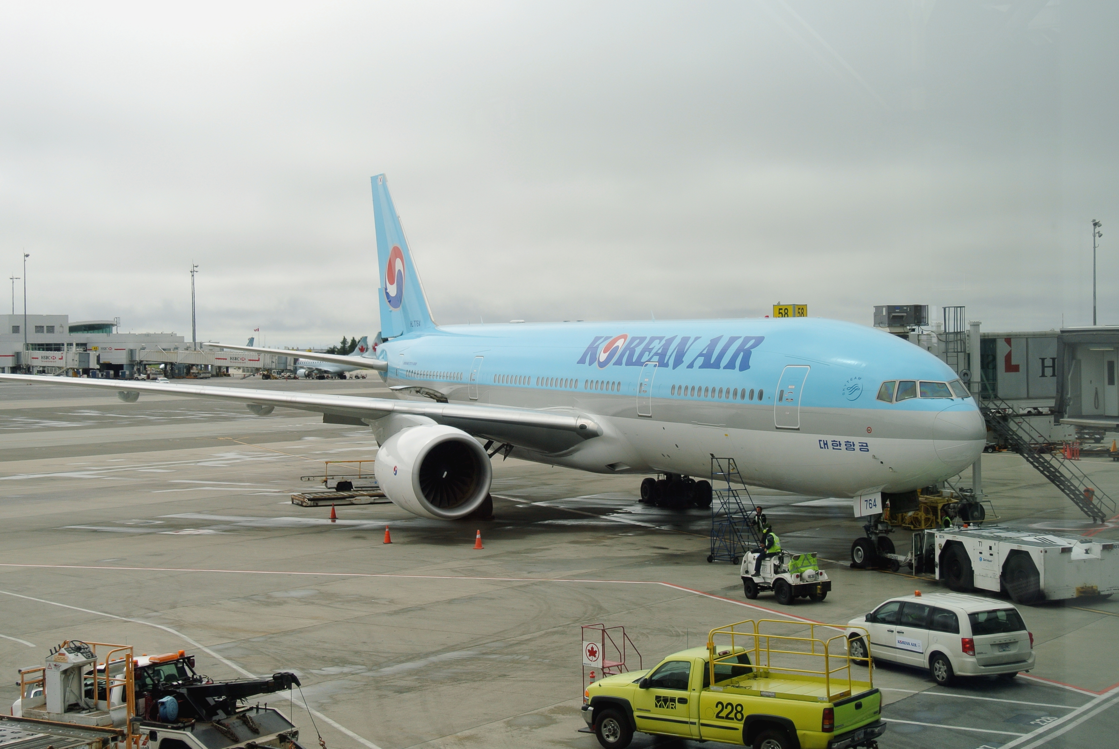 Boeing 777-200 (HL 7764) owned by Korean Air being serviced at the Vancouver International Airport (YVR) on gate 58. Flight KE 072 bound to Seoul Incheon (ICN).